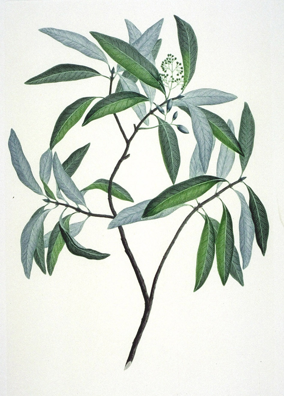 Beilschmiedia tawa, (Lauraceae), 'Tawa', a canopy tree in the New Zealand rainforest.